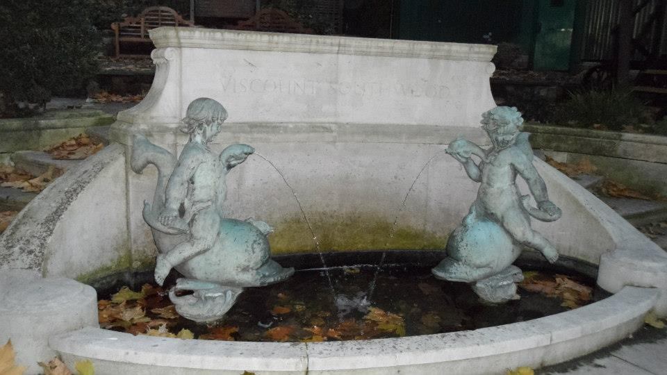 Memorial to Viscount Southwood (1873-1946) in St James's Churchyard, Westminster